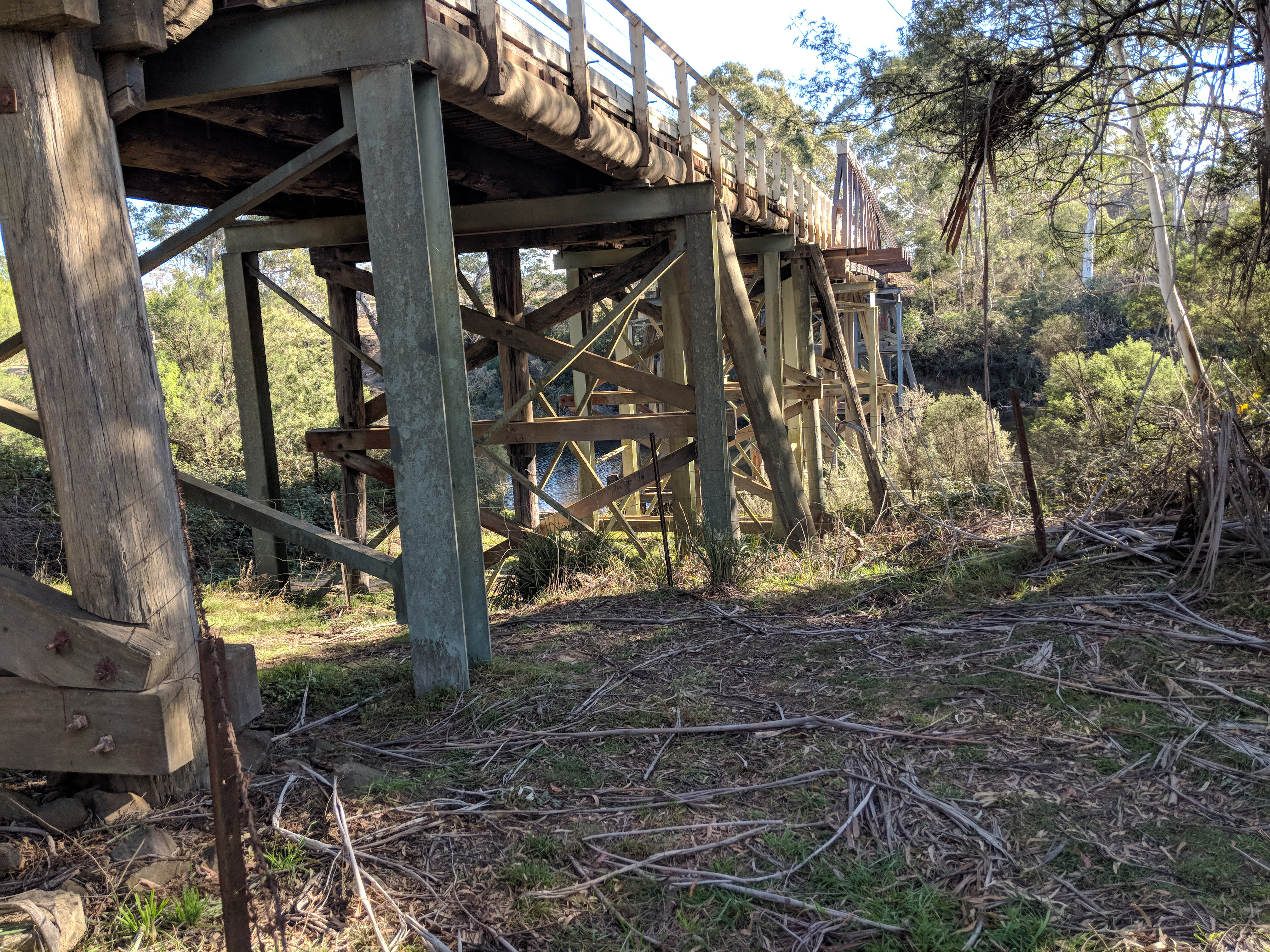 Mongarlowe River bridge at Charleyong (Marlowe/Tomboye), New South Wales